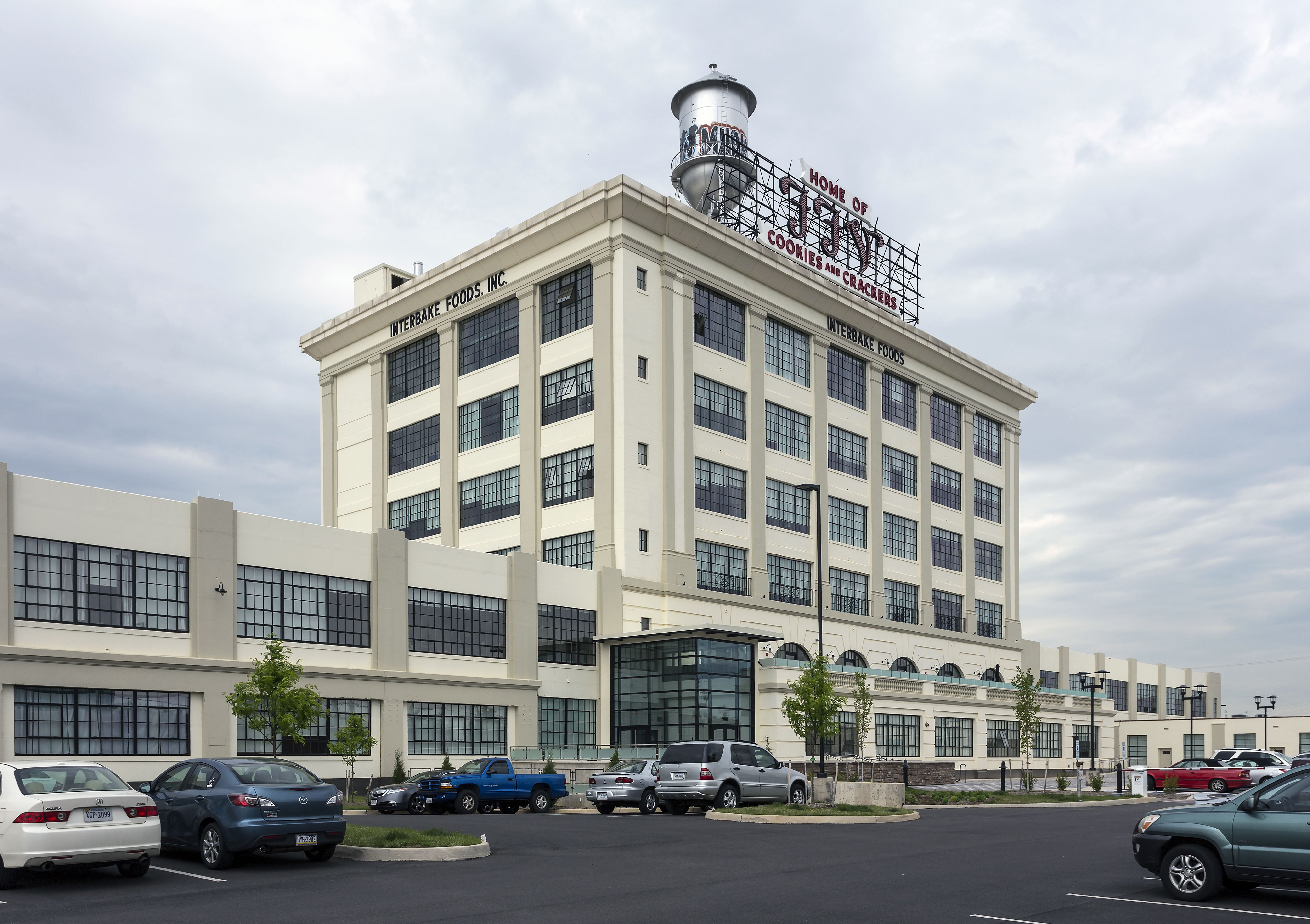 The former Southern Biscuit Company/Interbake/FFV factory, now the Cookie Factory Lofts residences, in Richmond, Virginia, USA